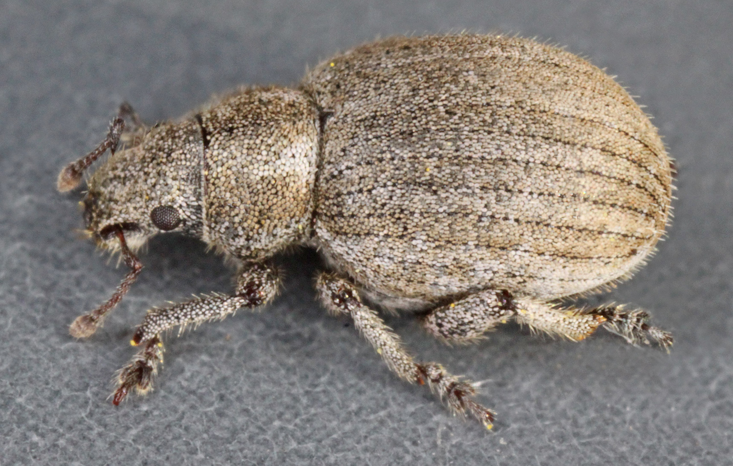 Philopedon plagiatum, Dyffryn, North Wales, May 2010 (3)